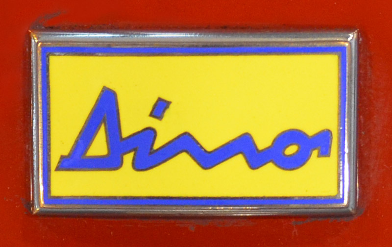 Dino badge, from a 308 GT4. Cropped version.